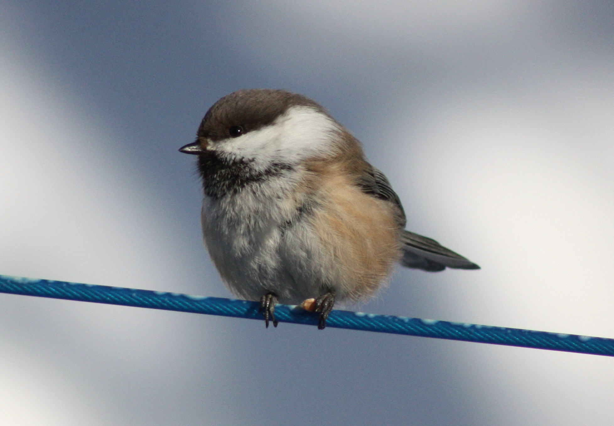 A siberian tit (Poecile cinctus, formerly Parus cinctus) in Kittilä, Finland.